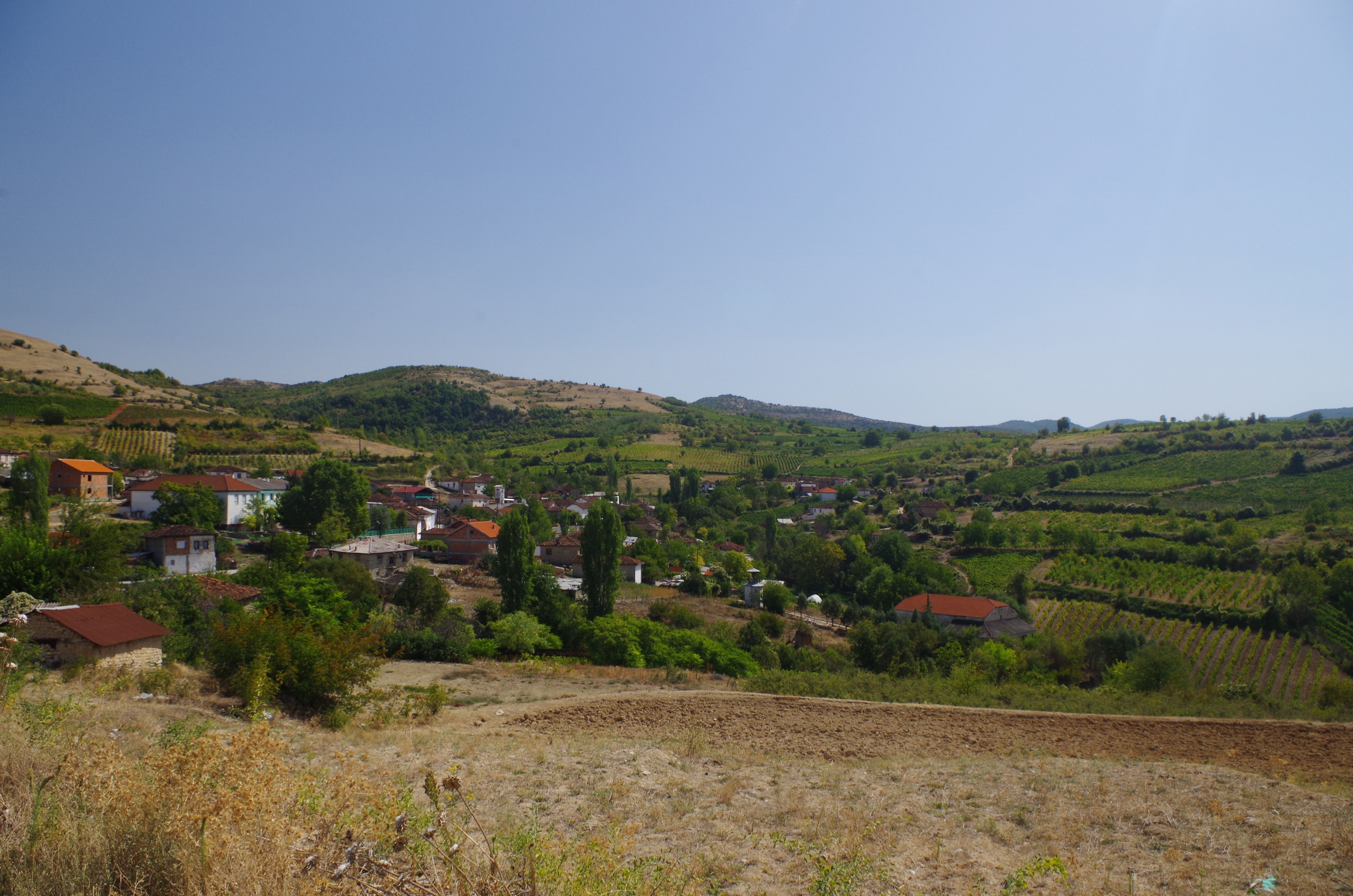 Panoramic view of the village of Begnište